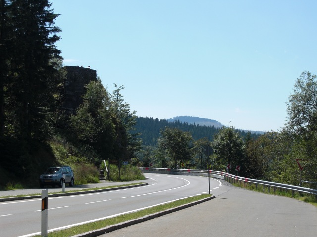 Hindenburgkanzel as seen from the street below